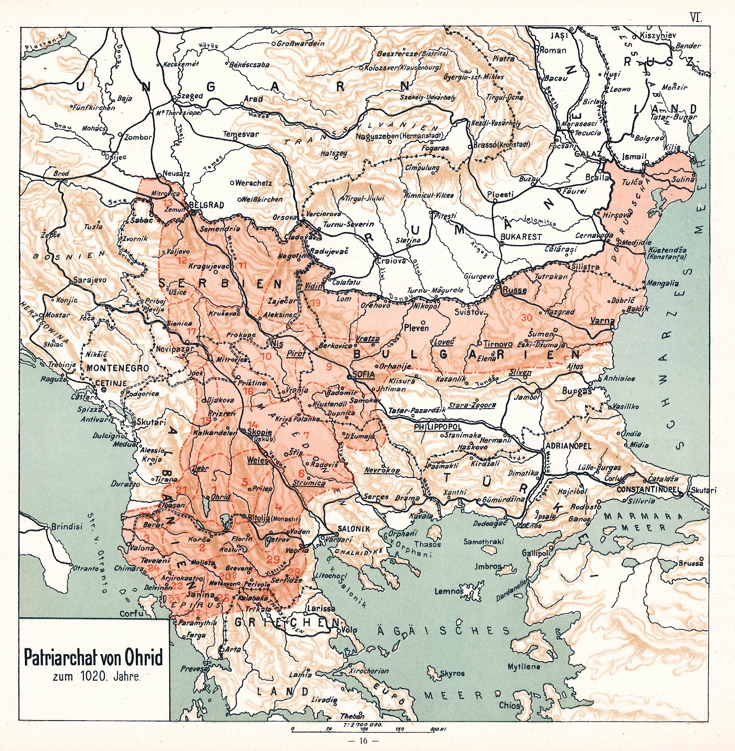 The Patriarchate of Ohrid